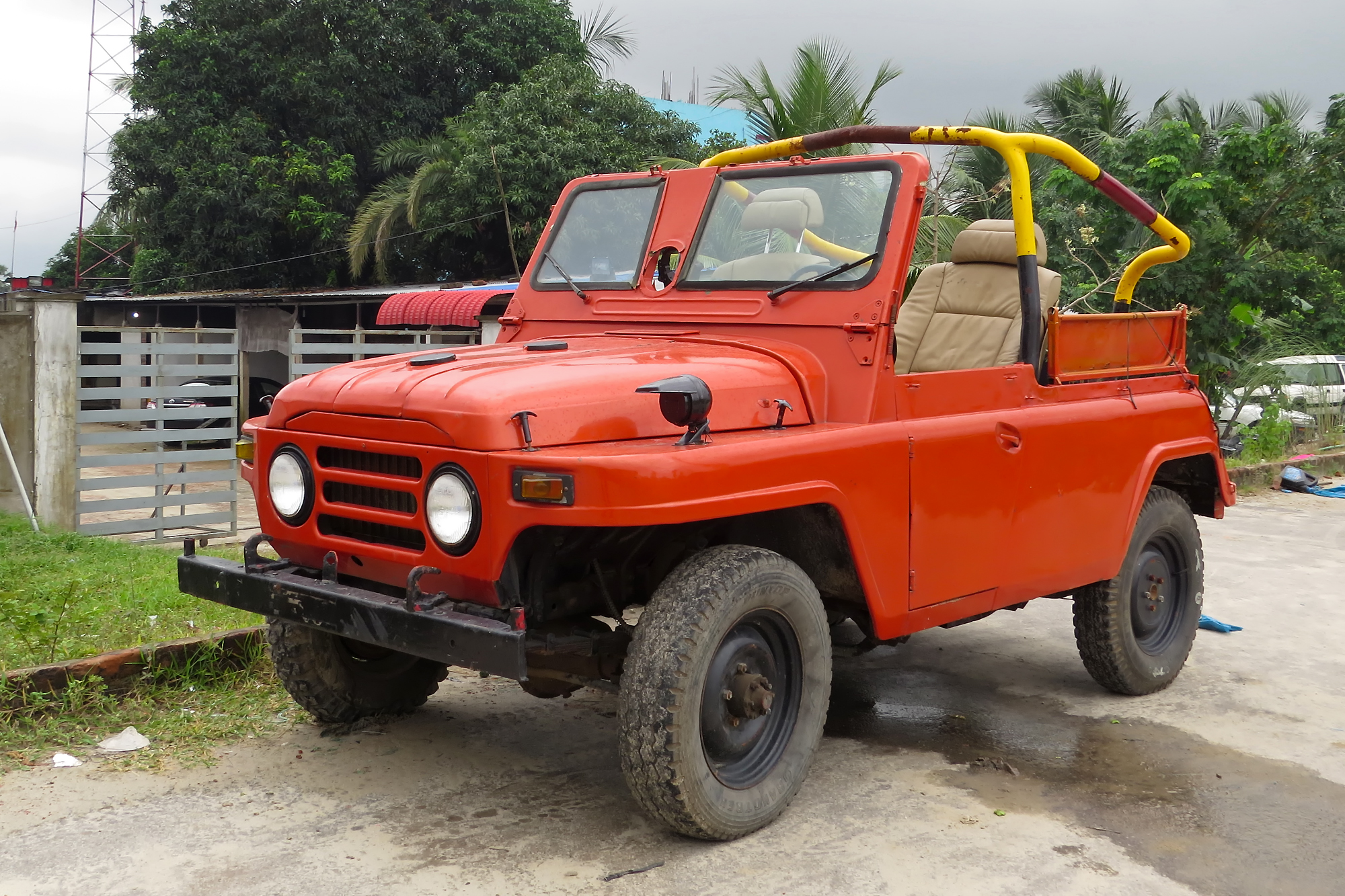 300ft highway 2017: Restored and waiting for a buyer, which is gonna be difficult to find as its a left hand drive.